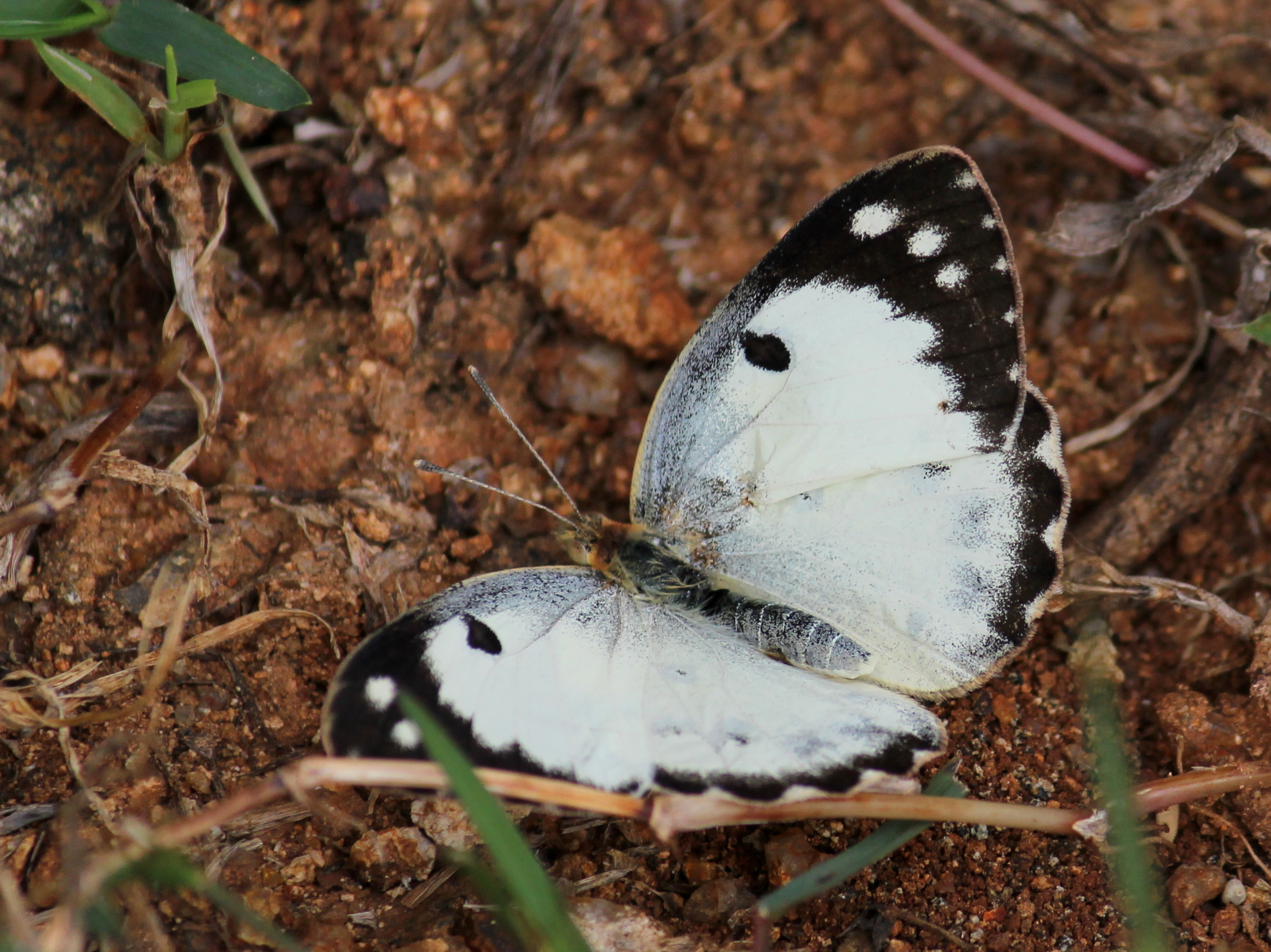 Colotis fausta in Melagiri